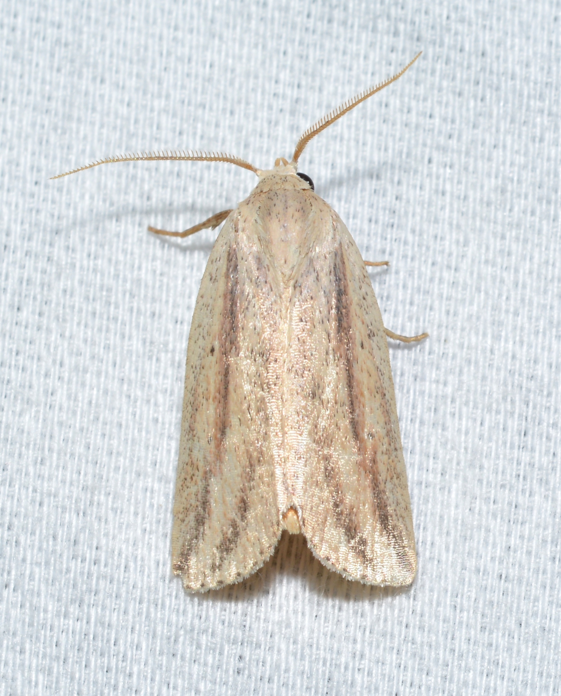 Cuivre River State Park 7/8/17 Troy, MO Moth Night